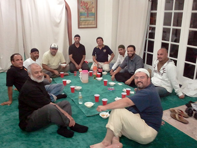 Masyid Al Islam Monday Iftar Day